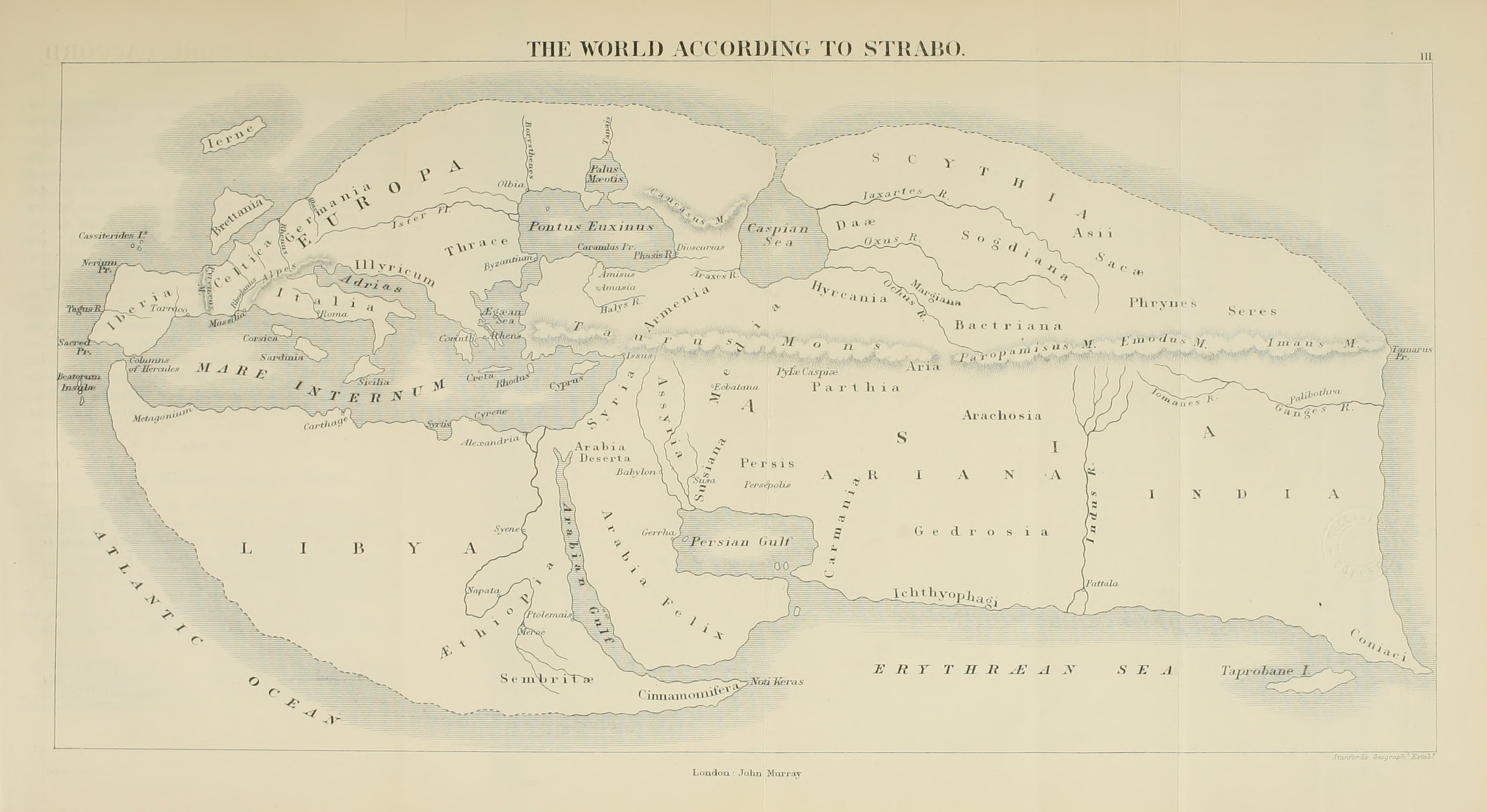 19th century reconstruction of World map according to Strabo (18 A.D.).